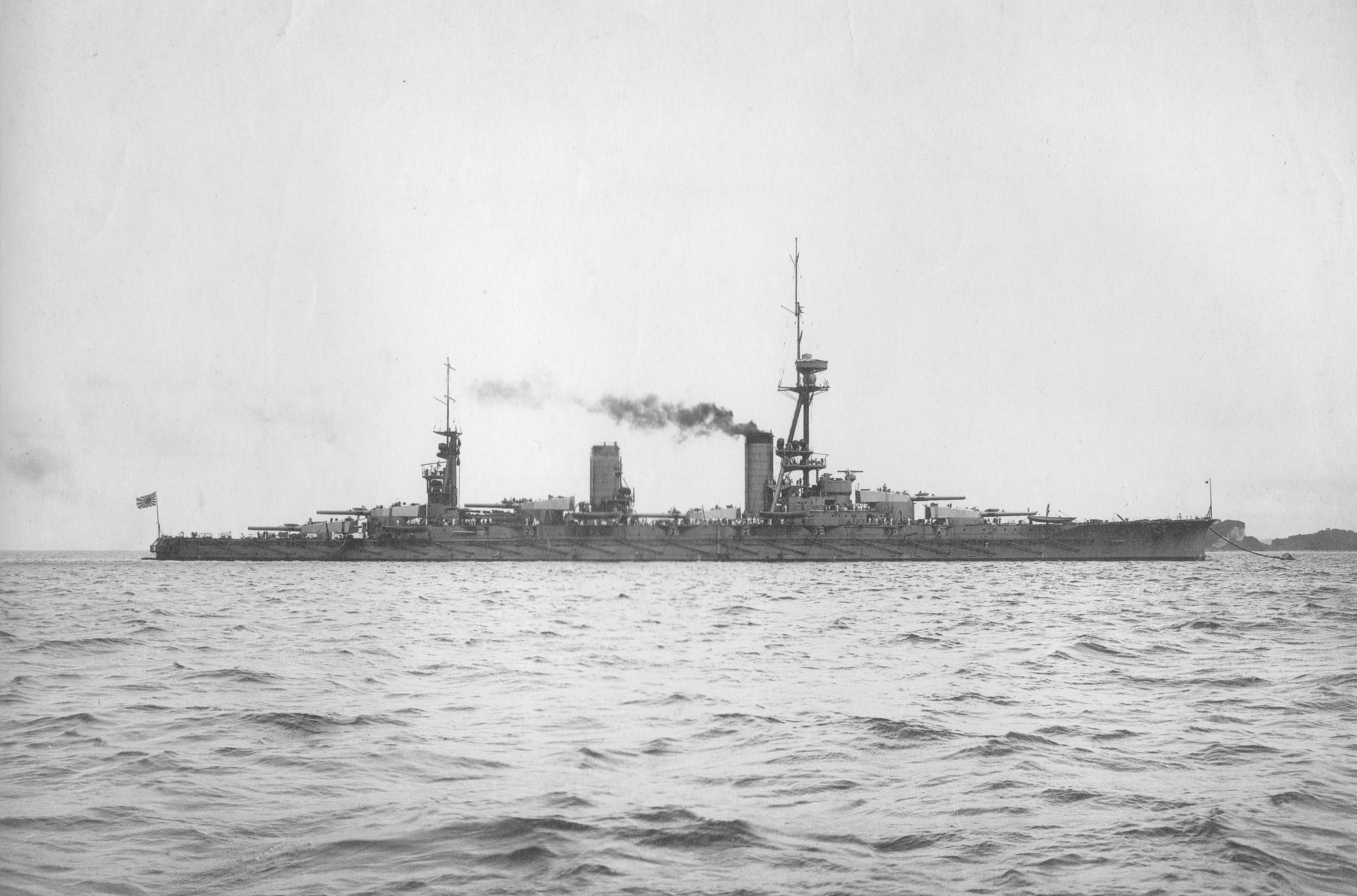 Imperial Japanese Navy battlecruiser Yamashiro at Yokosuka, Japan.